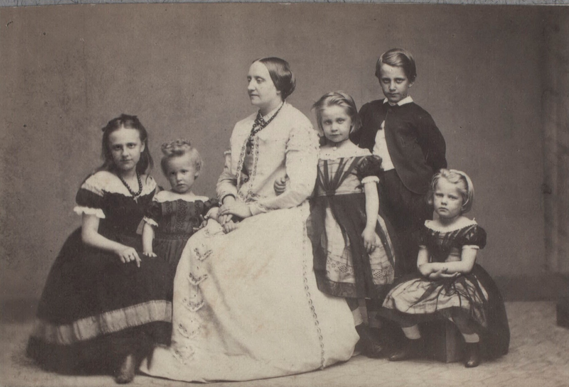 Anna Dorothea Erichsen née Suhr (1827-1890), wife of Herman Gustav Erichsen, with their children